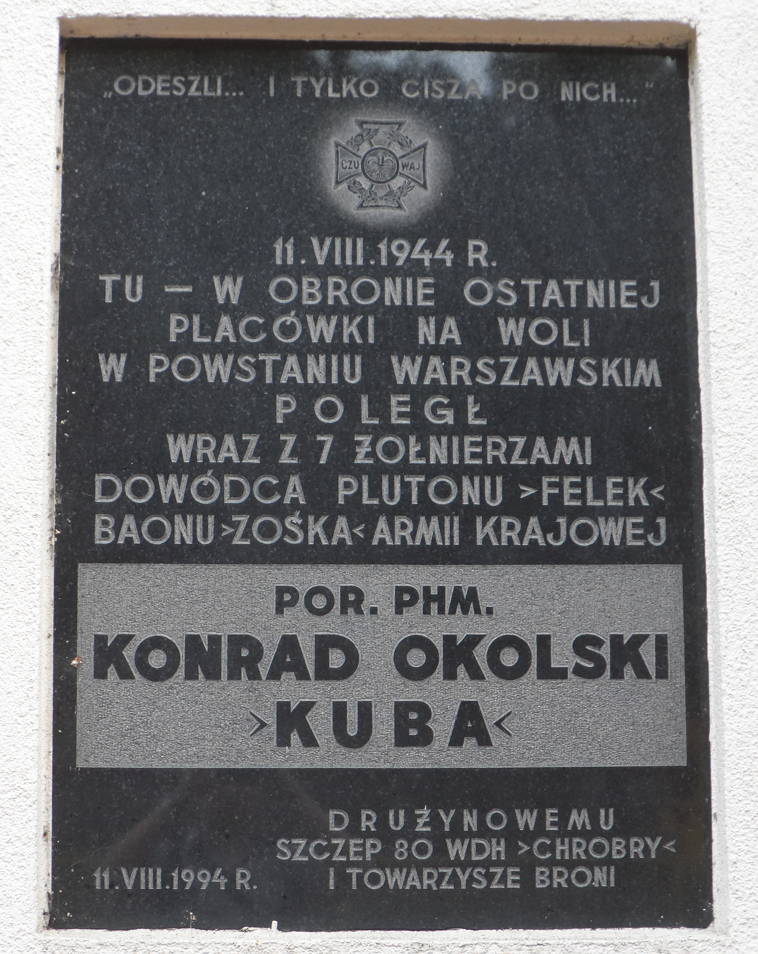 Plaque at 13 Spokojna Street in Warsaw, commemorating Lt. Konrad Okolski (“Kuba”) and his colleagues from Armia Krajowa’s battalion “Zośka”, who fallen during the Warsaw Uprising (on 11th August 1944).